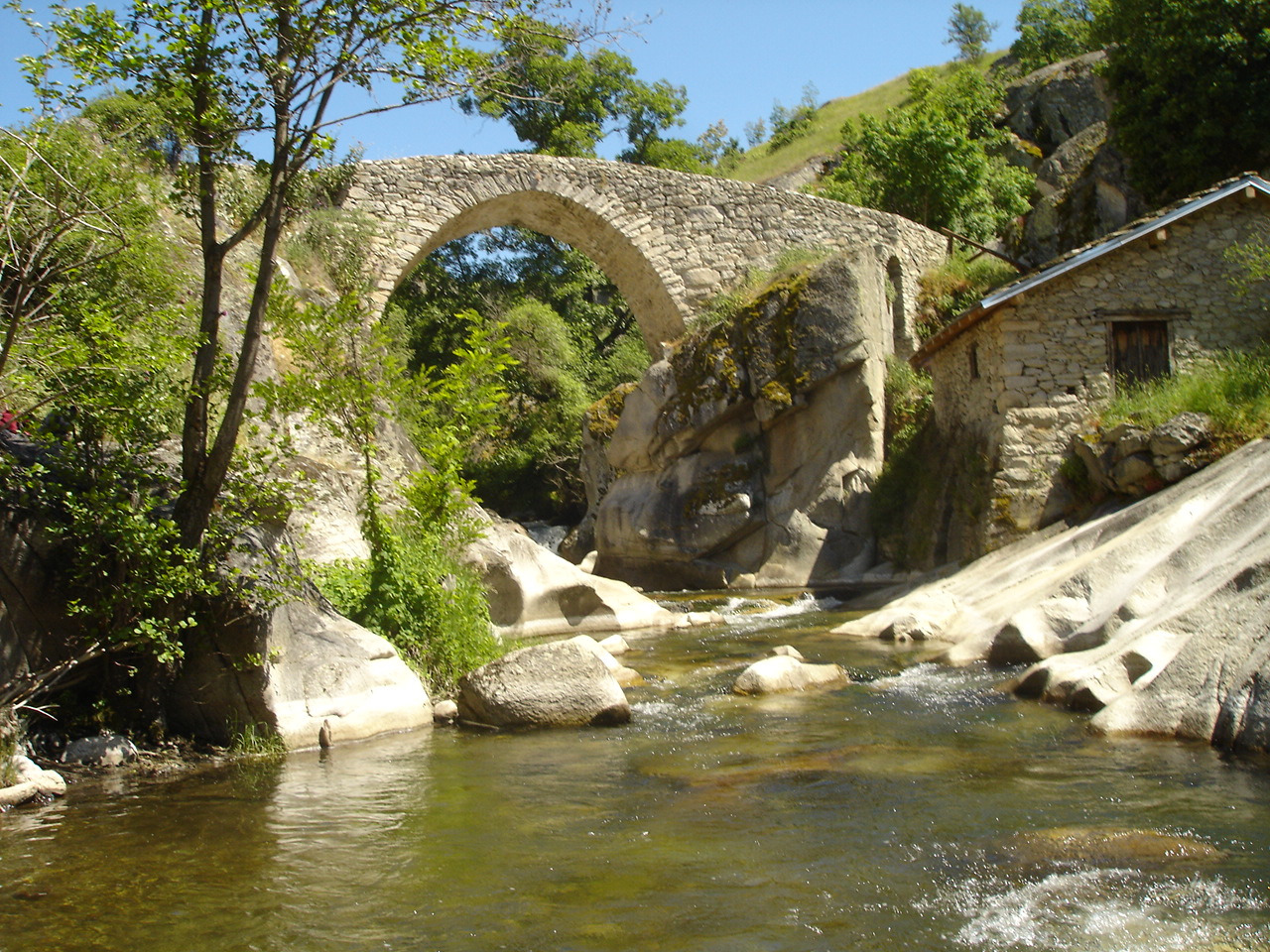 The stone bridge over Gradeshka River near village of Zovich in Mariovo region. The scenery where the Milcho Manchevski's 2002 movie "Dust" was filmed.